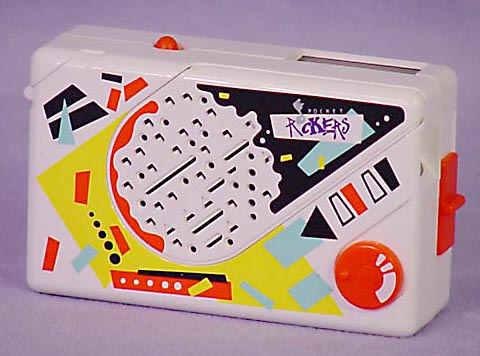 Photo of the original Fisher Price Pocket Rocker